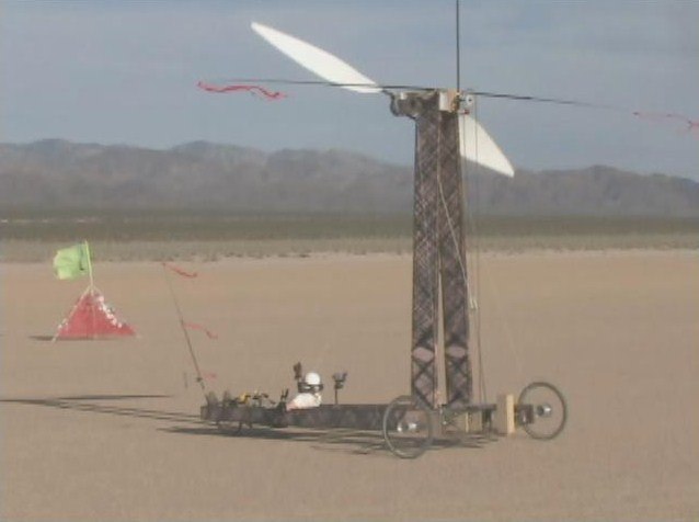 The land yacht Blackbird running dead downwind faster than the wind: note opposing streamers on Blackbird and on the ground